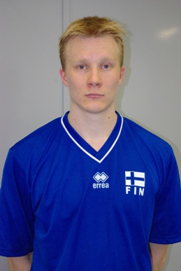 Palokangas Jouni